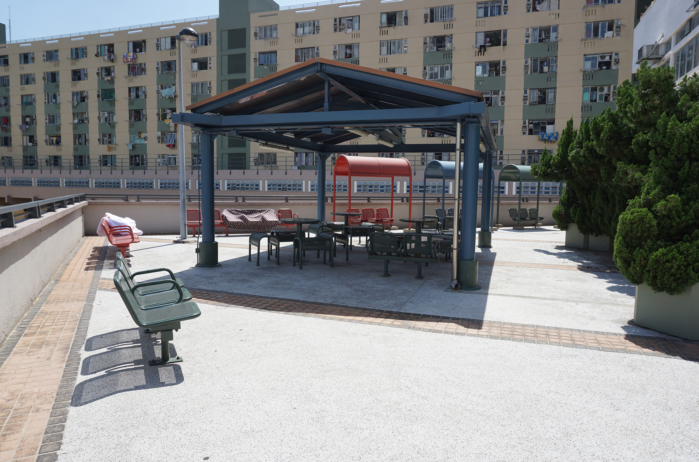 Kwai Shing West Estate in Kwai Shing, Hong Kong.